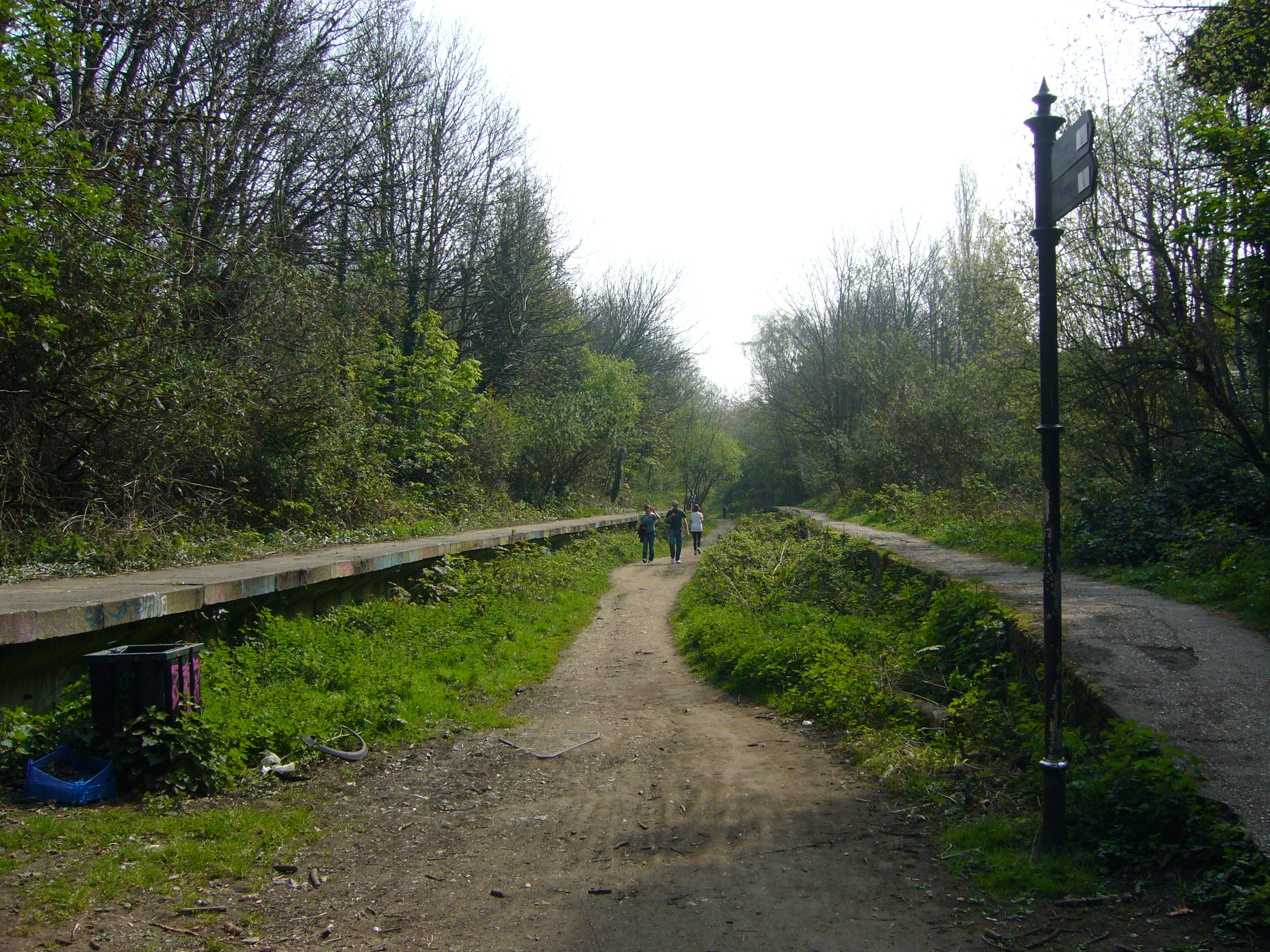 The railway platforms near crouch hill on the Parkland Walk.